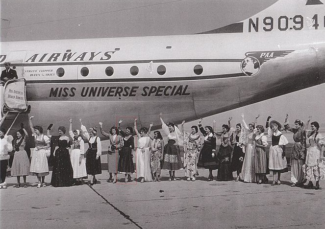 Miss Universe Contest in Long Beach